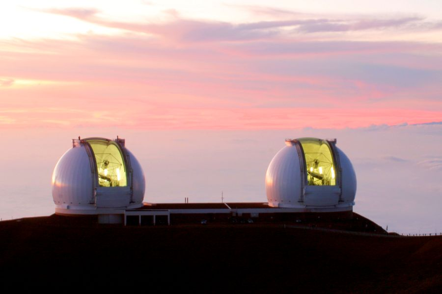 The W. M. Keck Observatory, atop Mauna Kea, Hawai'i